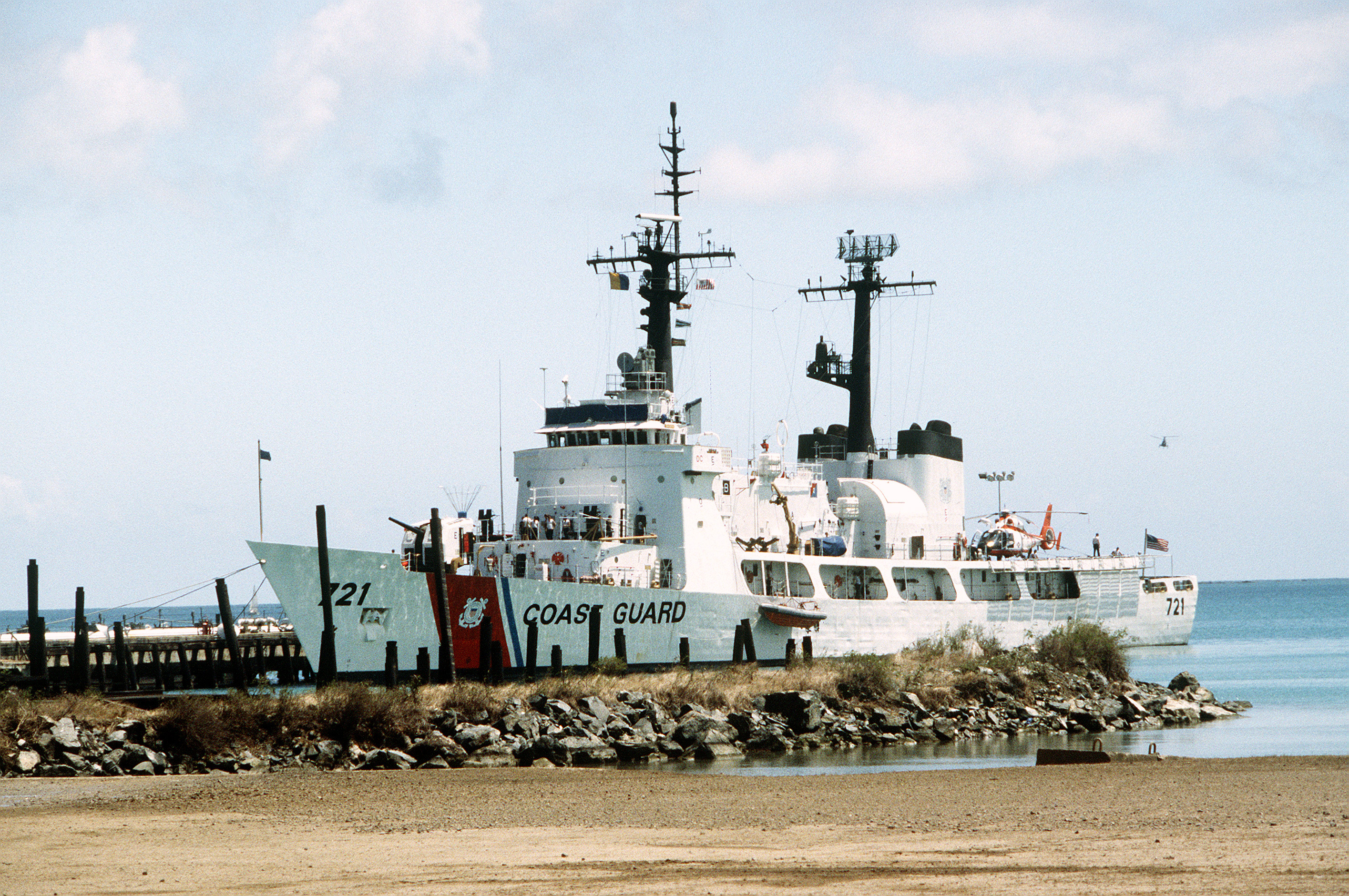 The U.S. Coast Guard high endurance cutter USCGC Gallatin (WHEC-721) lies tied up at a pier at Naval Station Roosevelt Roads, Puerto Rico, during exercise "Ocean Venture '88", on 30 March 1988.